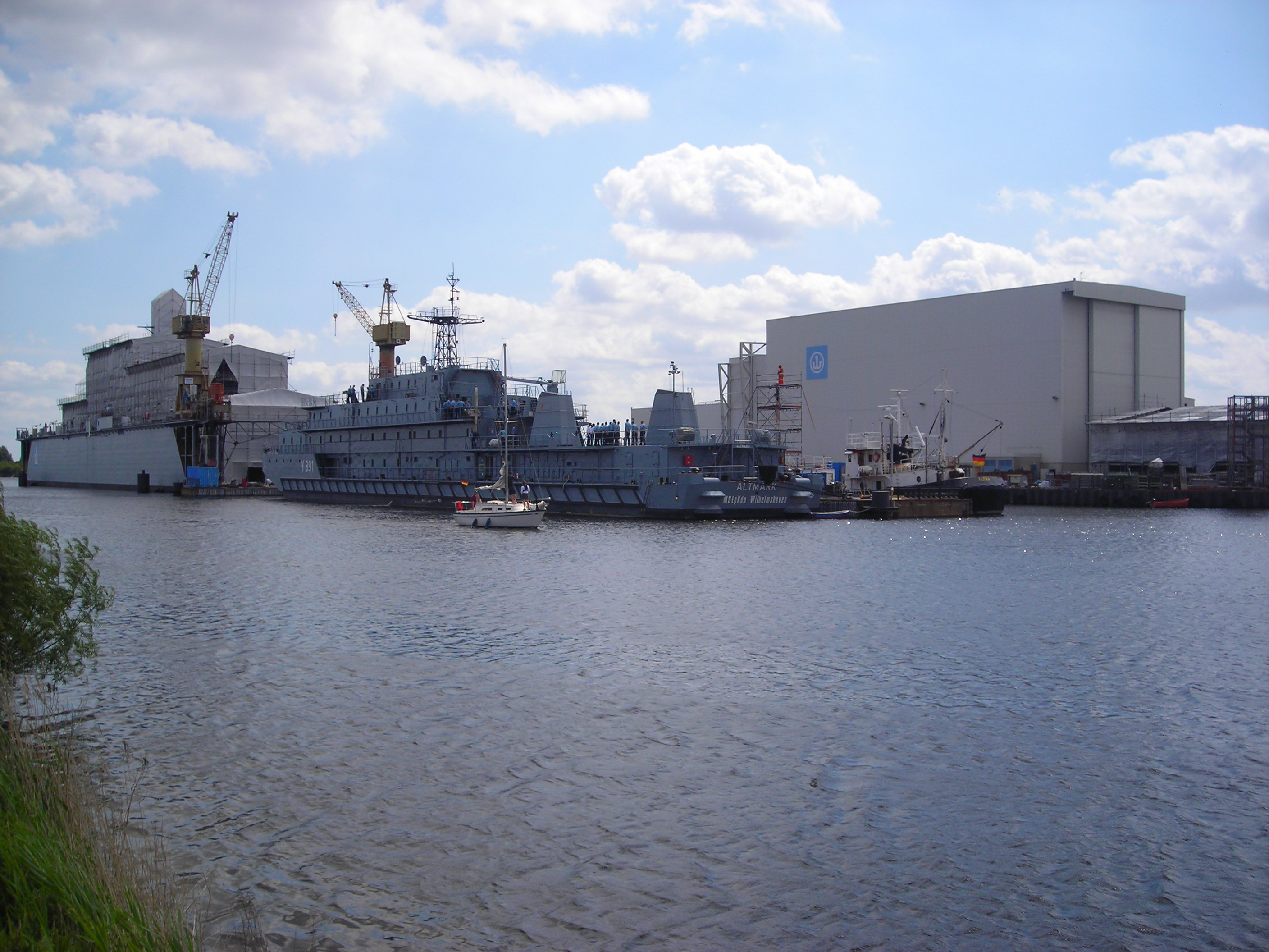 Neue Jadewerft shipyard in Wilhelmshaven